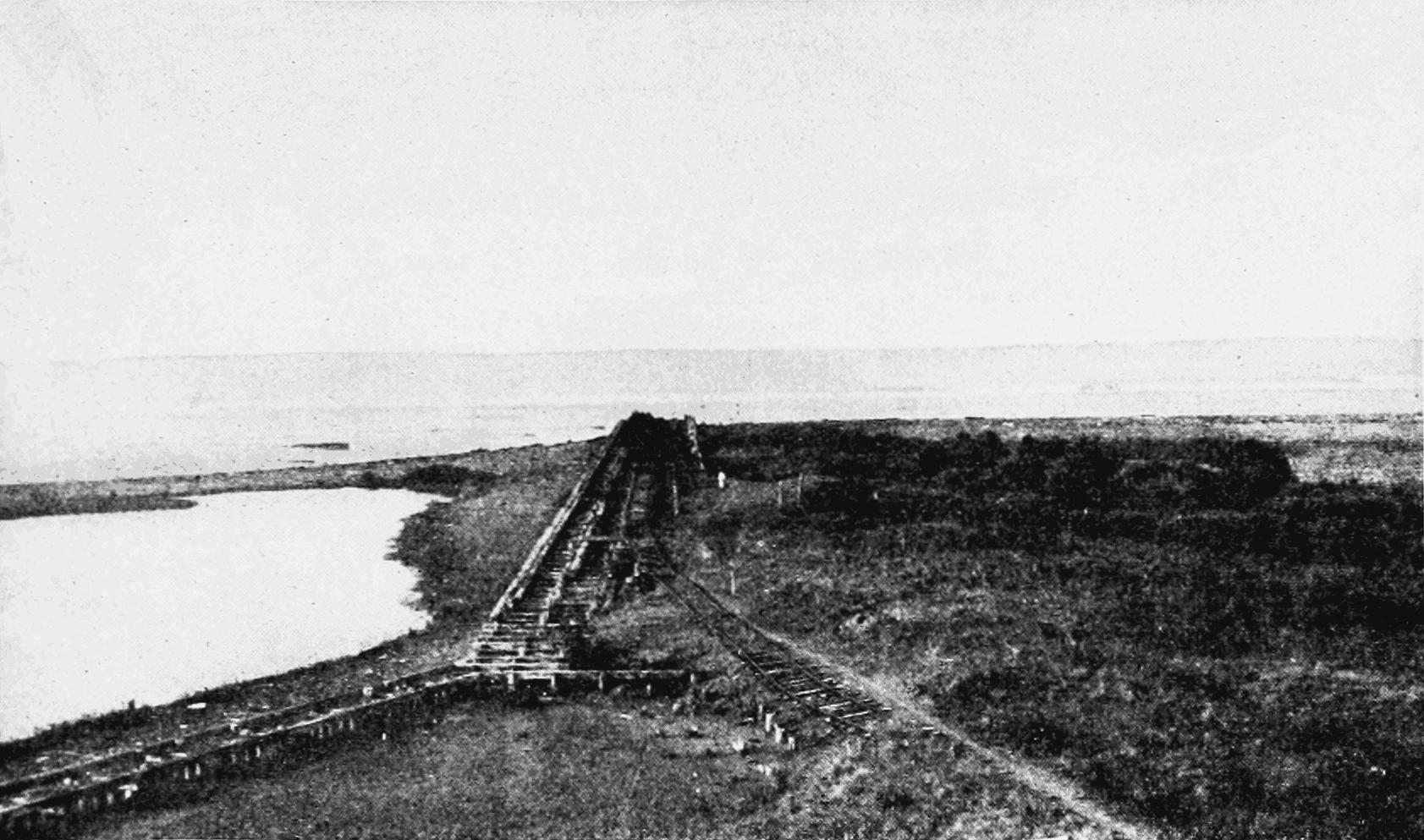 Greytown harbor on the coast of Nicaragua